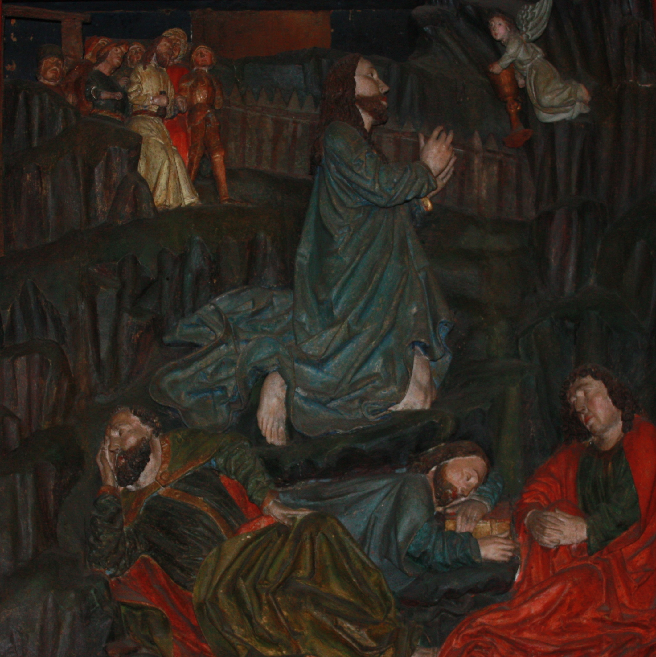 Parish church Saint Stephanus - Christ at the mount olive Locality: Sankt Stefan im Lavanttal Community:Wolfsberg